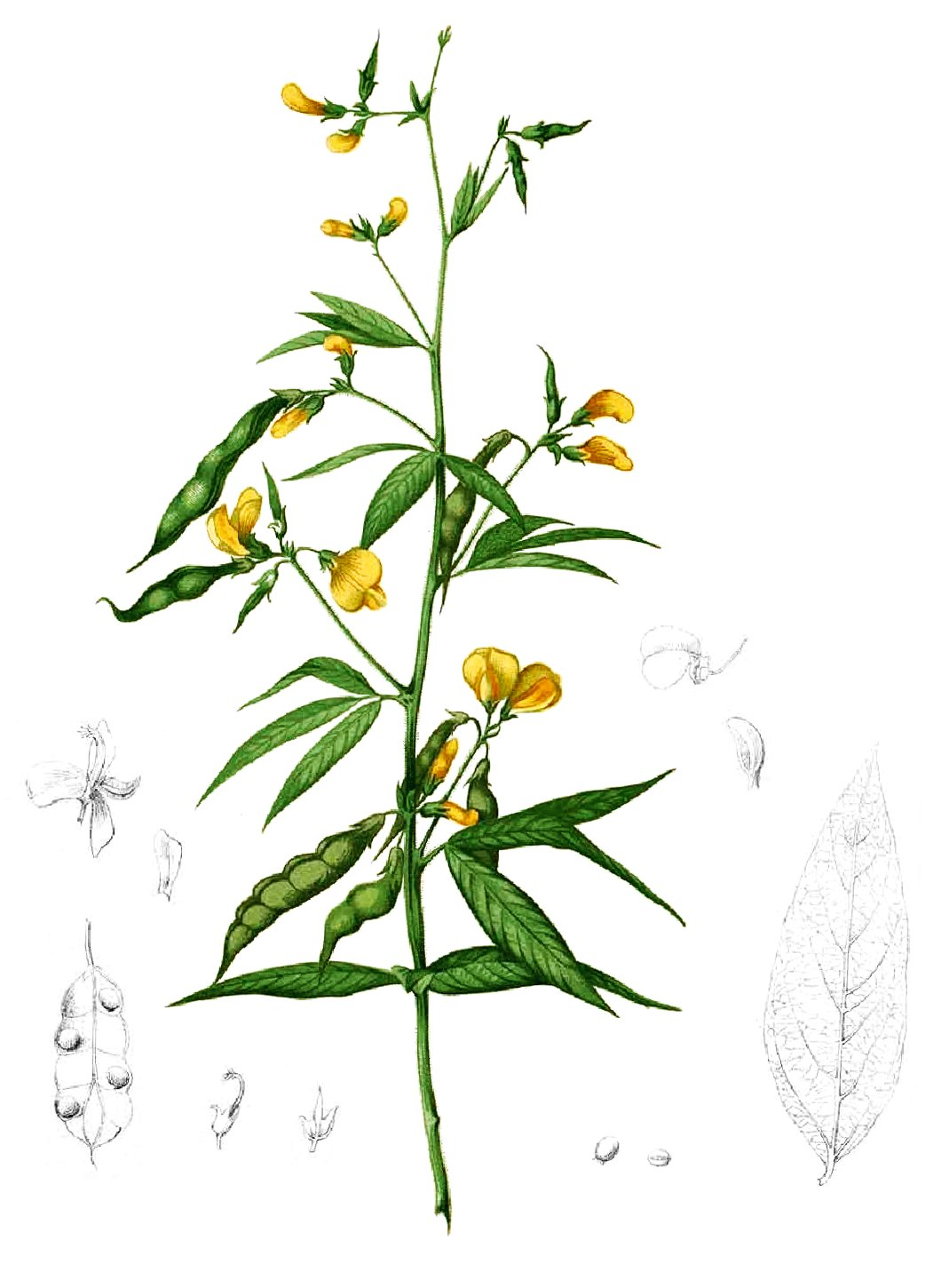 Plate from book